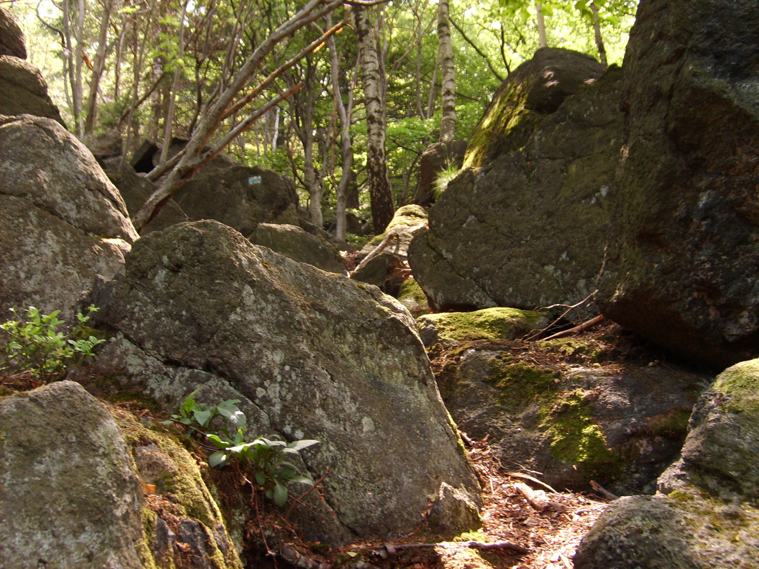 Blue trail near Skalna Perć (Rocky Path)